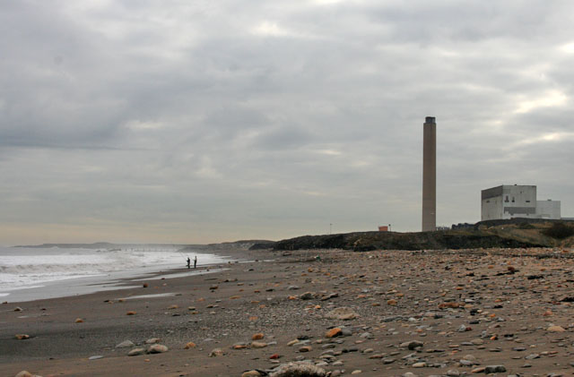 Fishing off Lynemouth beach Two fishermen at Lynemouth beach.